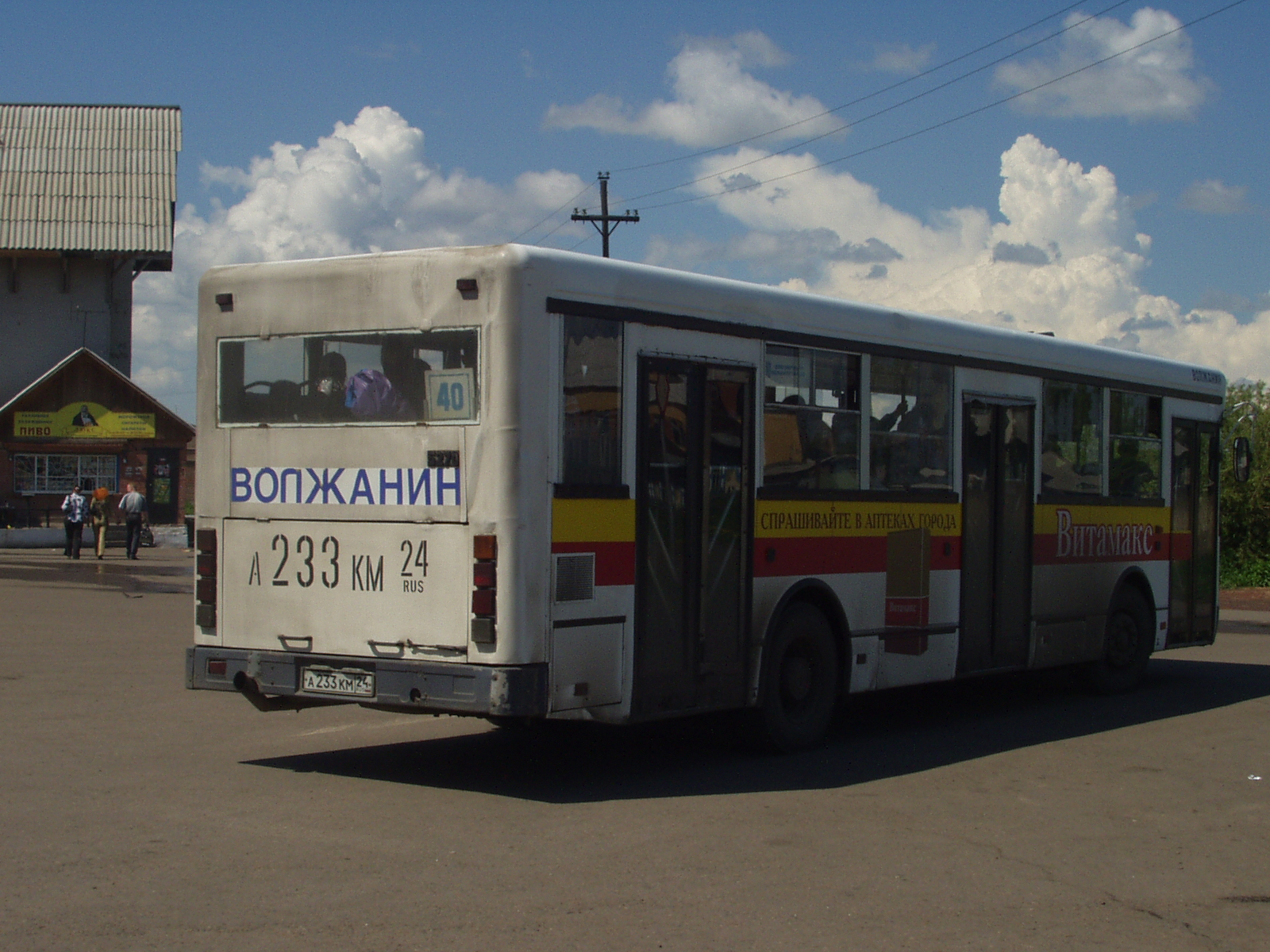 The bus #40 going to Zelenogorsk.